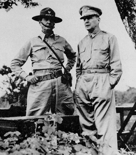 Major General Wainwright and General MacArthur